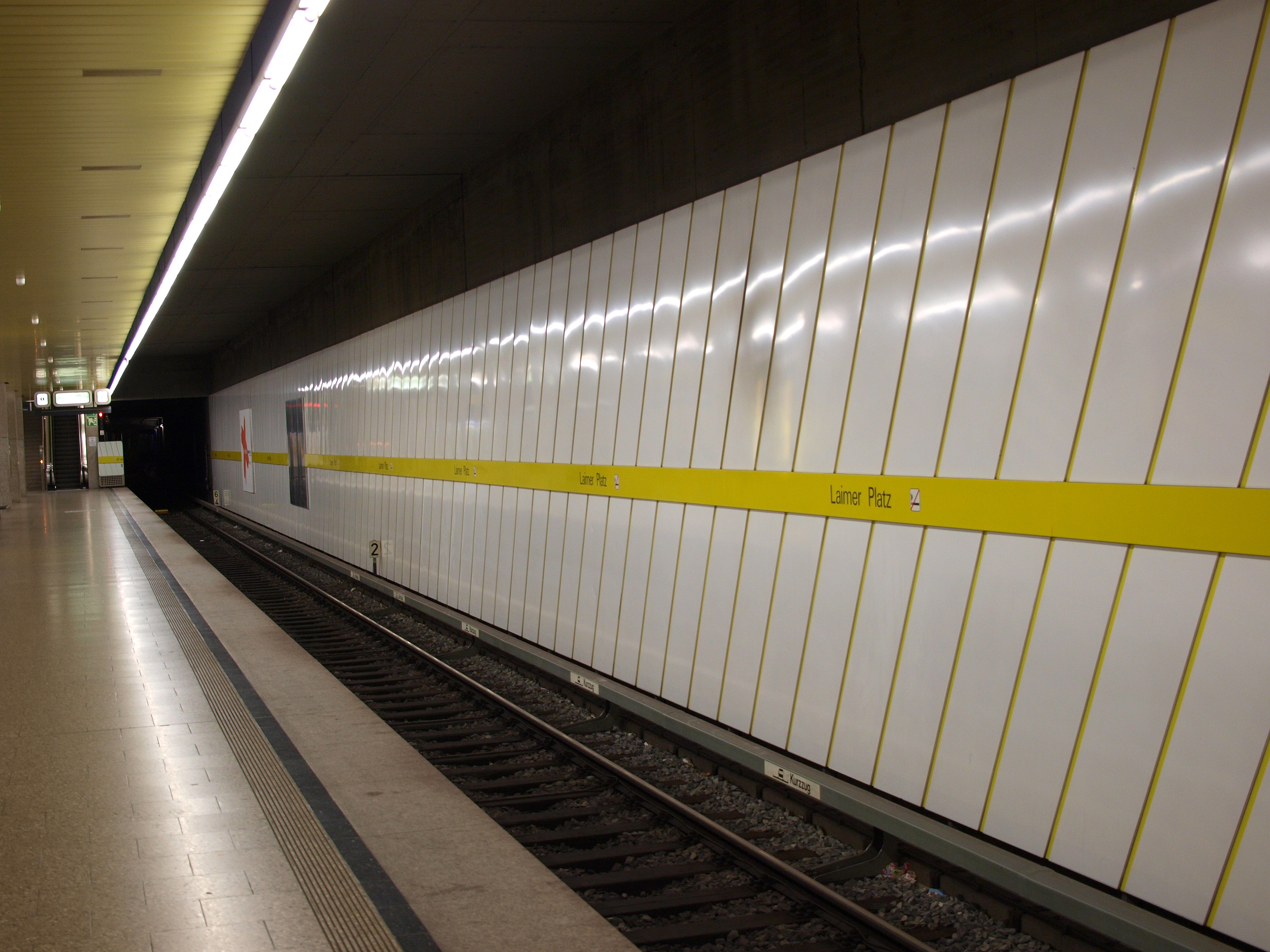 Underground Station Laimer Platz, Picture taken in Munich/Bavaria